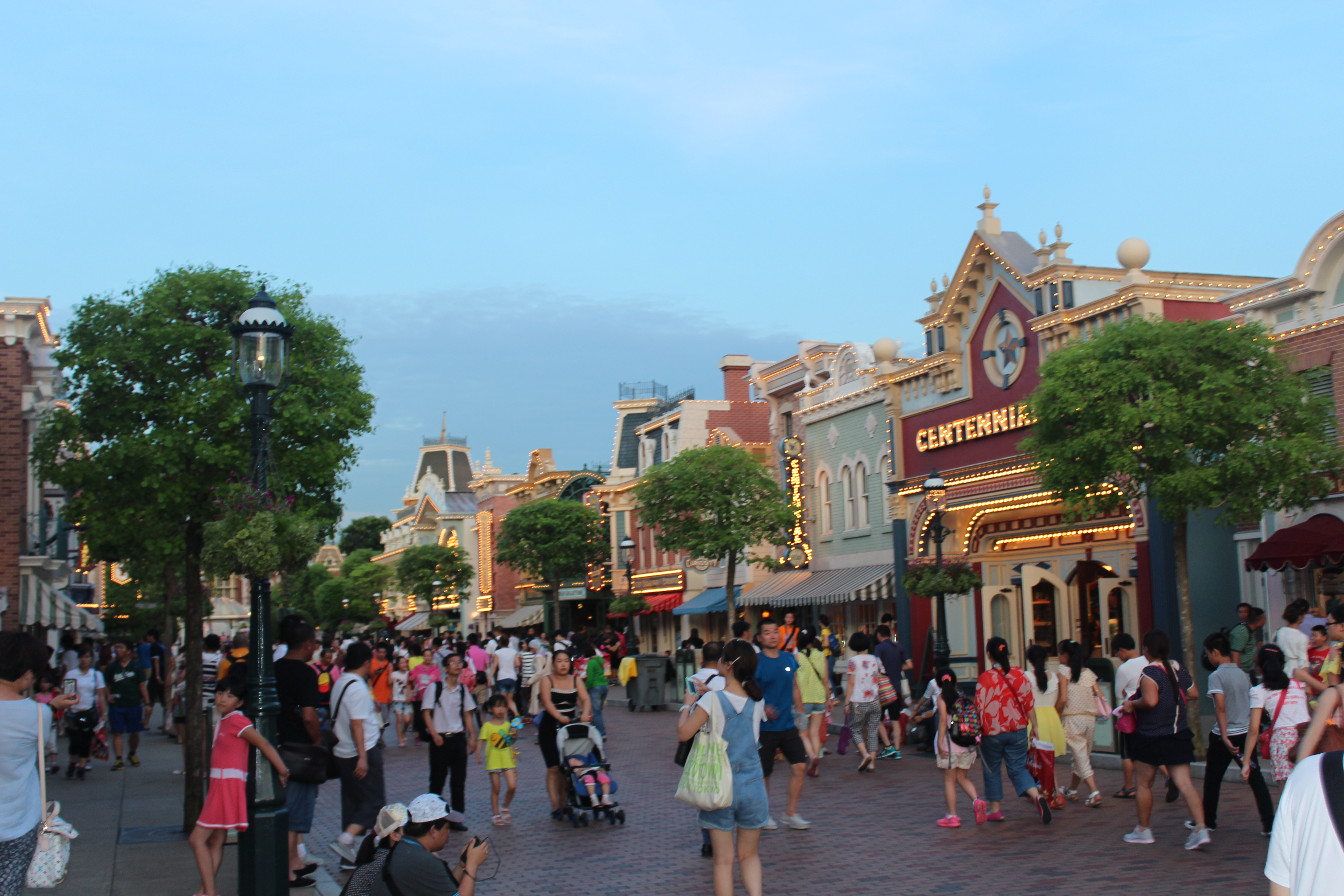 Main Street USA at Hong Kong Disneyland, Hong Kong